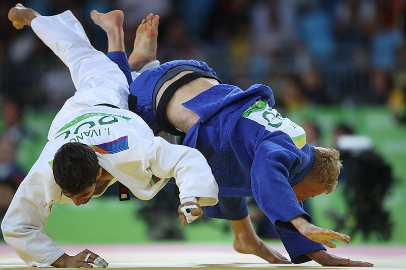 2016 Summer Olympics Judo, August 9